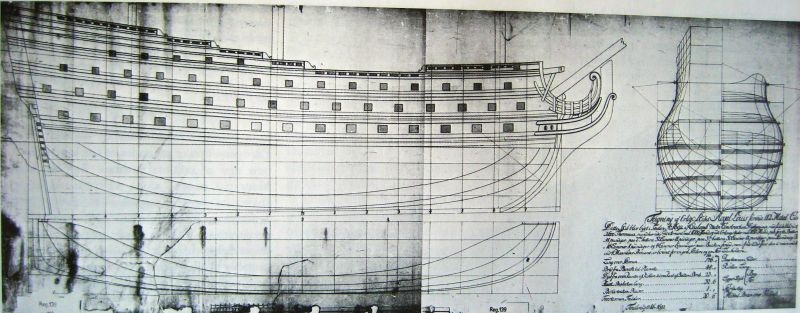 Profile and draught of french ship of the line Royal Louis (1692)